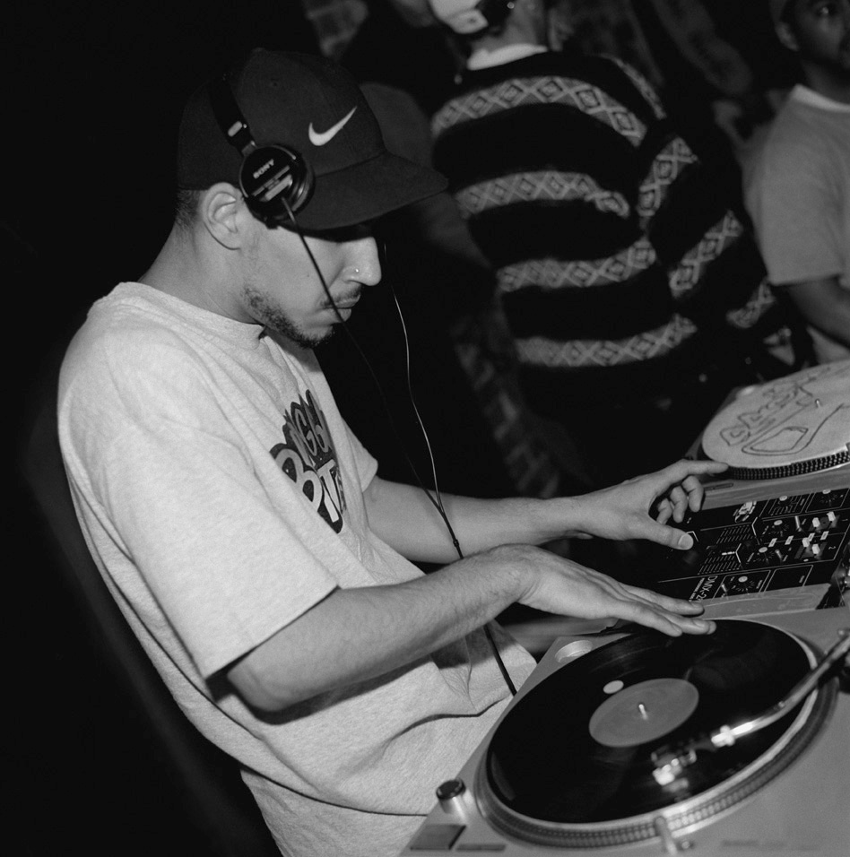 Nuyorican Poets Cafe NYC 1998